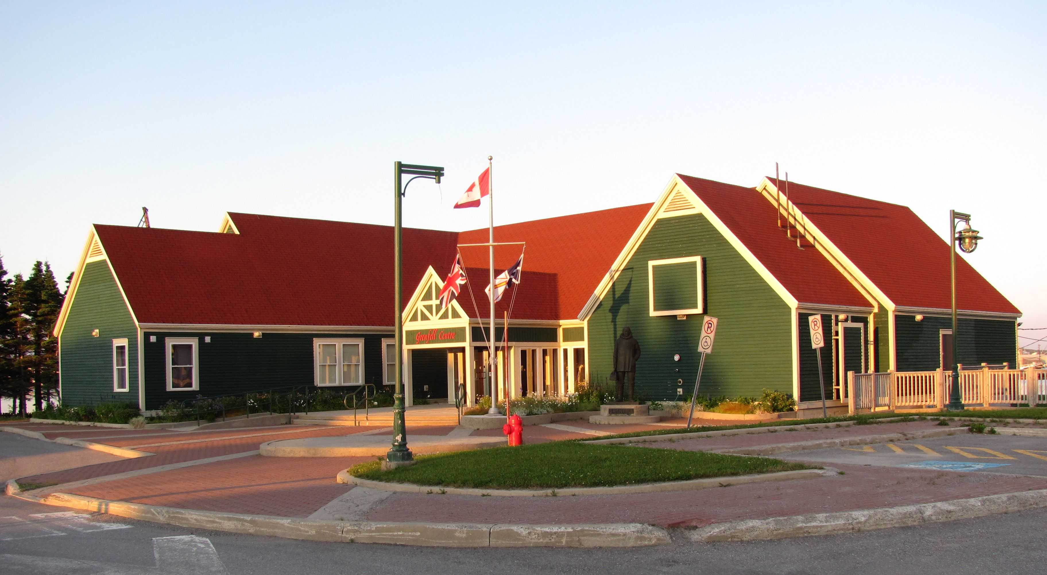 Grenfell Centre, St. St. Anthony, Newfoundland, Canada